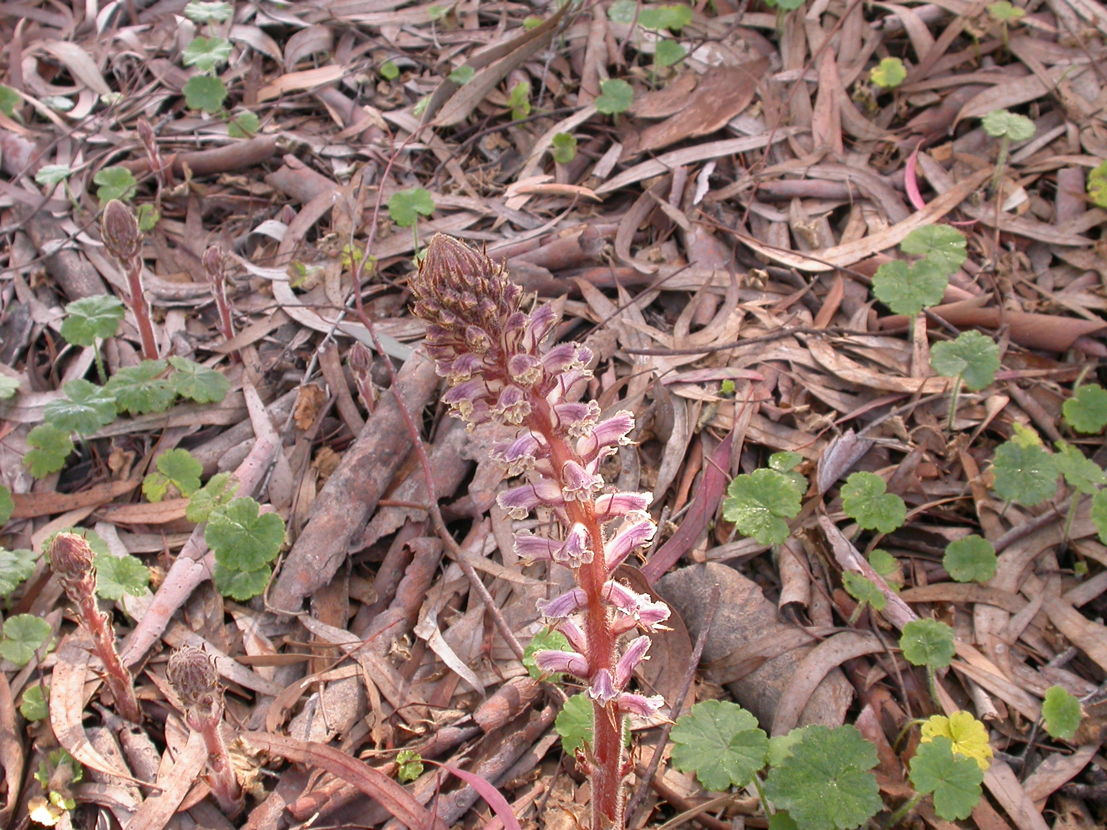 Orobanche minor Sm., Black Mountain, Canberra, ACT, 25 October 2010